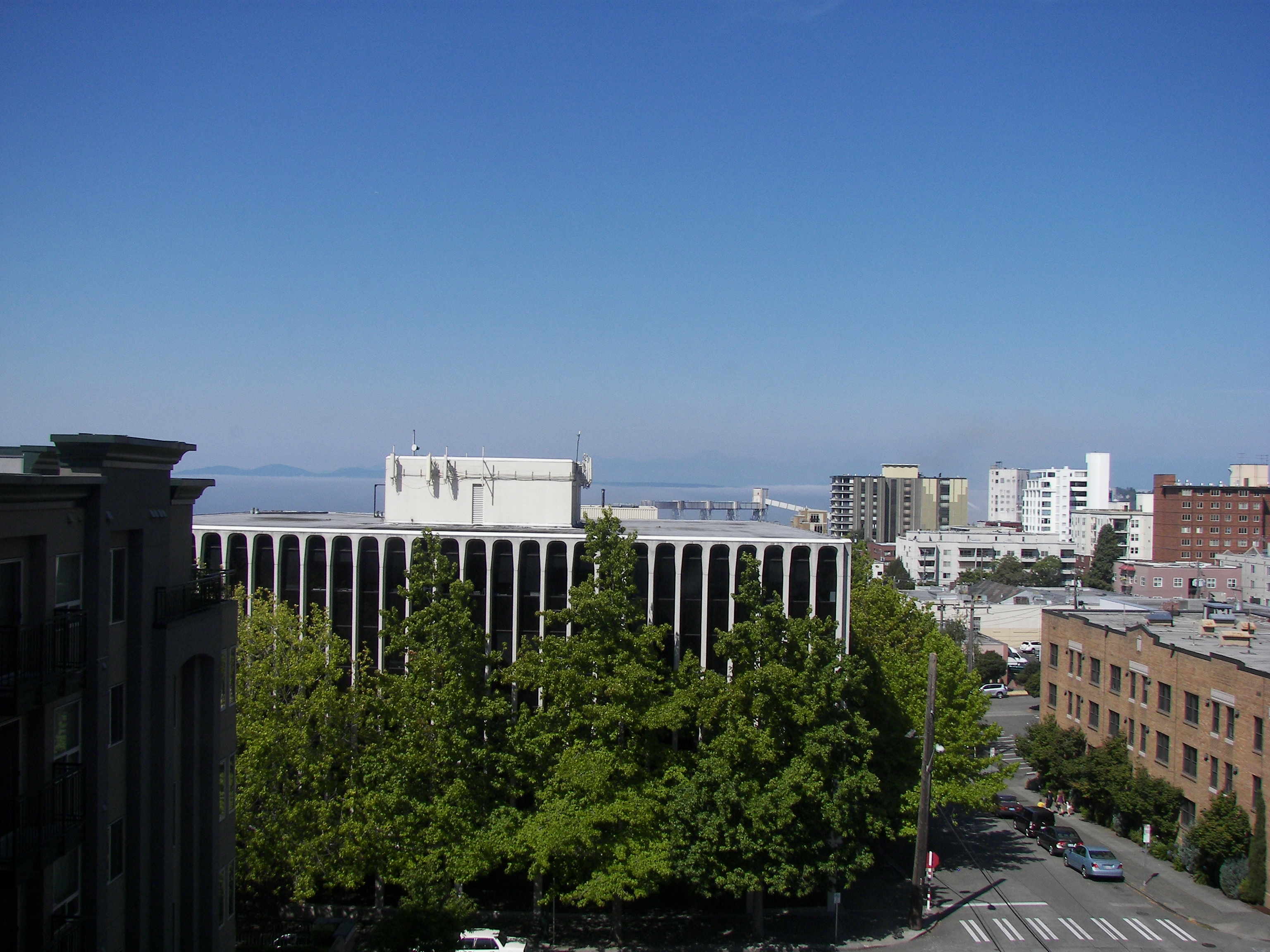 View of the Lower Queen Anne neighborhood of Seattle taken from the Mediterranean Inn at Queen Anne Ave. N and W Republican St.